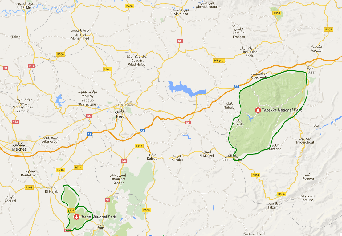 Location of the two National Parks of the Region Fes - Meknes in Morocco.